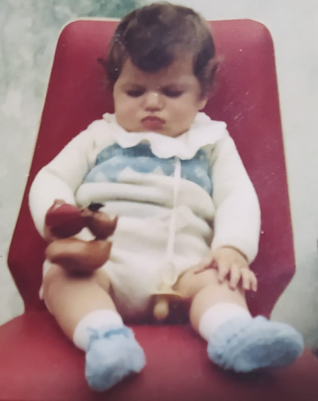 Infant in a cotton suit playing with two plastic duck toys